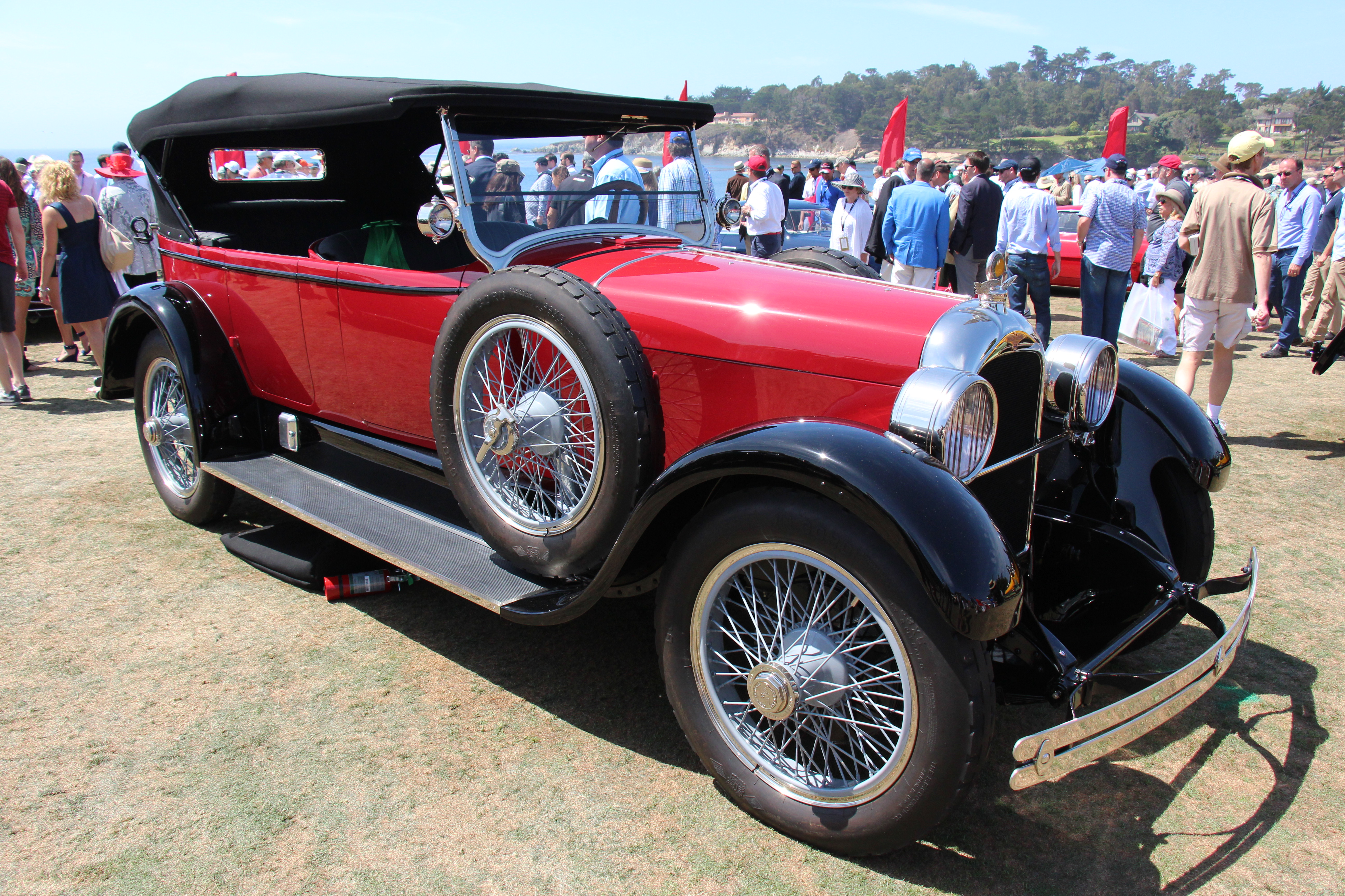 At the turn of the last century, Iowa bicycle makers August and Fred Duesenberg tinkered with gasoline engines and by 1913 Duesenberg Automobile Motors was manufacturing cars. The Duesenberg brothers also built many racecars and a Duesenberg became the first Indianapolis 500 winner to average over 100 miles per hour. Duesenberg also became the first American car to win the coveted LeMans French Grand Prix. The eight cylinder Duesenberg Model A was introduced in 1922. It was the first production car bearing the Duesenberg name. Only 650 Model As were built over the entire six year model run. This car was built by the coach building firm of Millspaugh and Irish Engine; 88hp 260 cu in straight 8 OHC Photographed at the 2015 Pebble Beach Concours d'Elegance